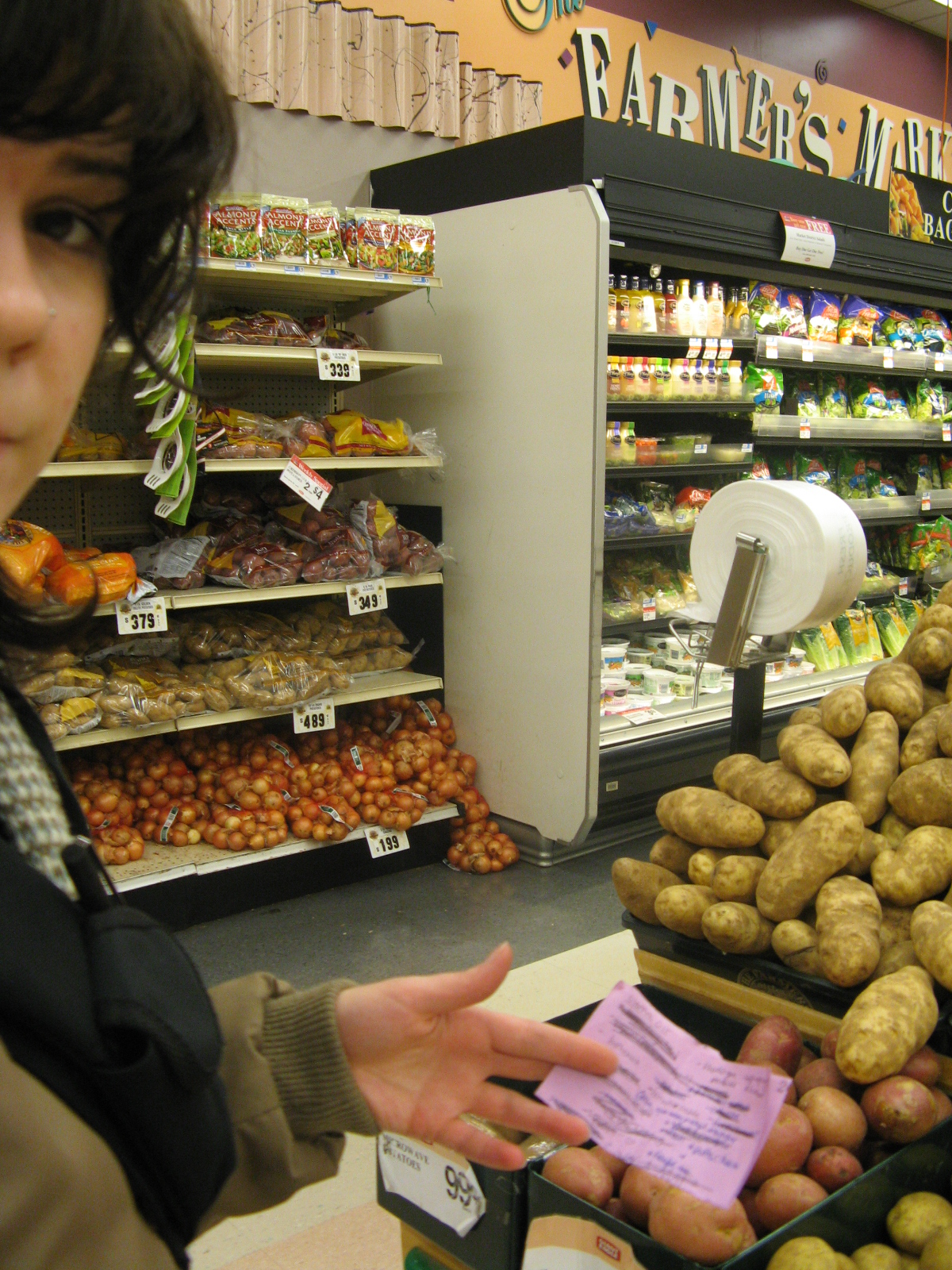 Original description from Flickr: Shopping at Giant Eagle. I've got most of my stuff as is evidenced by all the scratched out items on my list.